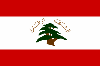 The former flag of the Lebanese Armed Forces. The Arabic words mean Honor and Nation.